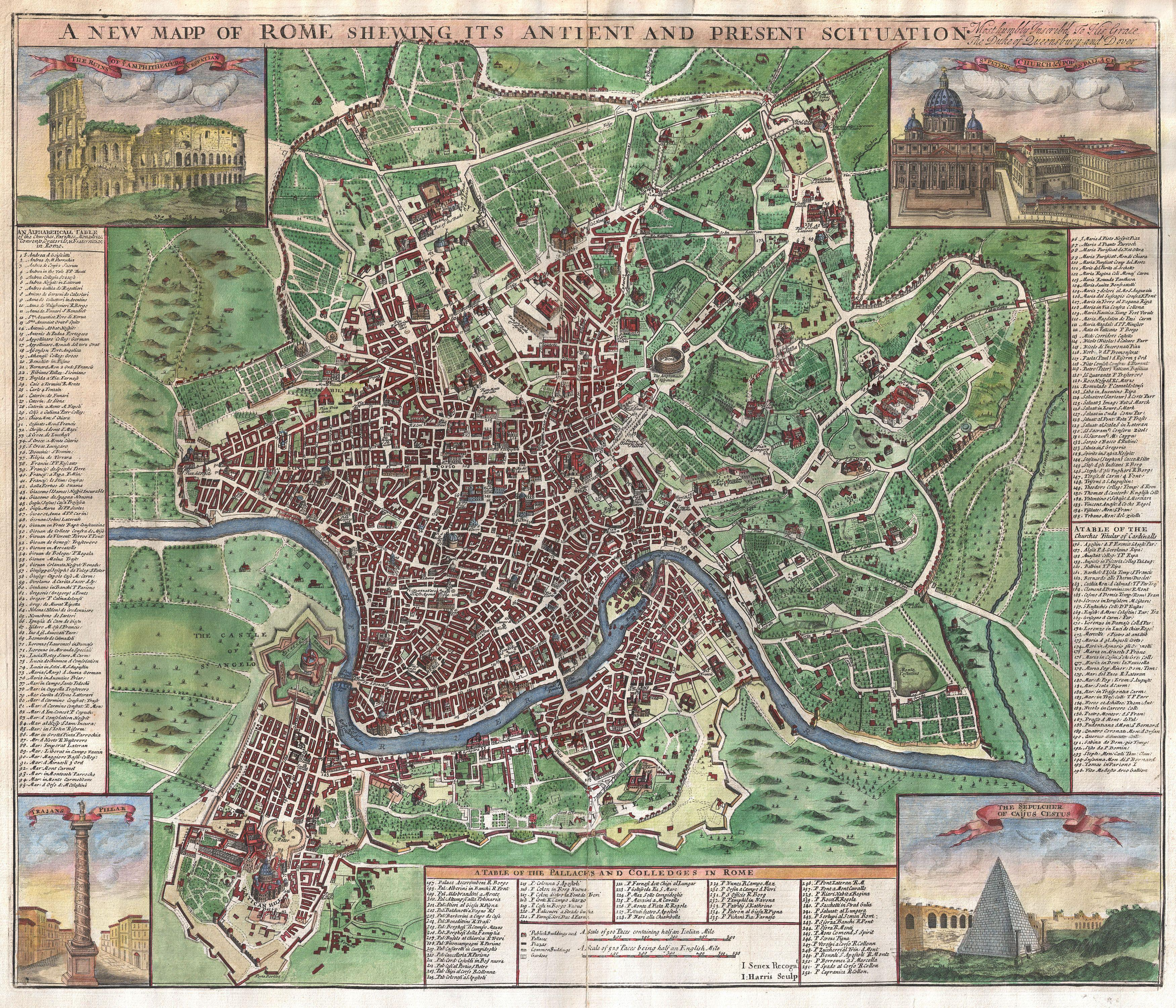 A radiant full color example of John Sennex's 1721 map of Rome. Covers the entire and part of the surrouding countryside. Identifies both modern and ancient monuments in profile. Some of these include the Coliseum, the Vatican, the Pantheon, and various other monument s, monasteries, and churches. Each corner is decorated with an engraved image of an important Roman monument, including: the Ruins of ye Amphitheater of Vespatian, St. Peter's Church & ye Pope's Pallace, Trajan's Pillar, and the pyramidal Sepulcher of Caijus Cestus. Engraved for John Sennex by John Harris and Samual Parker.